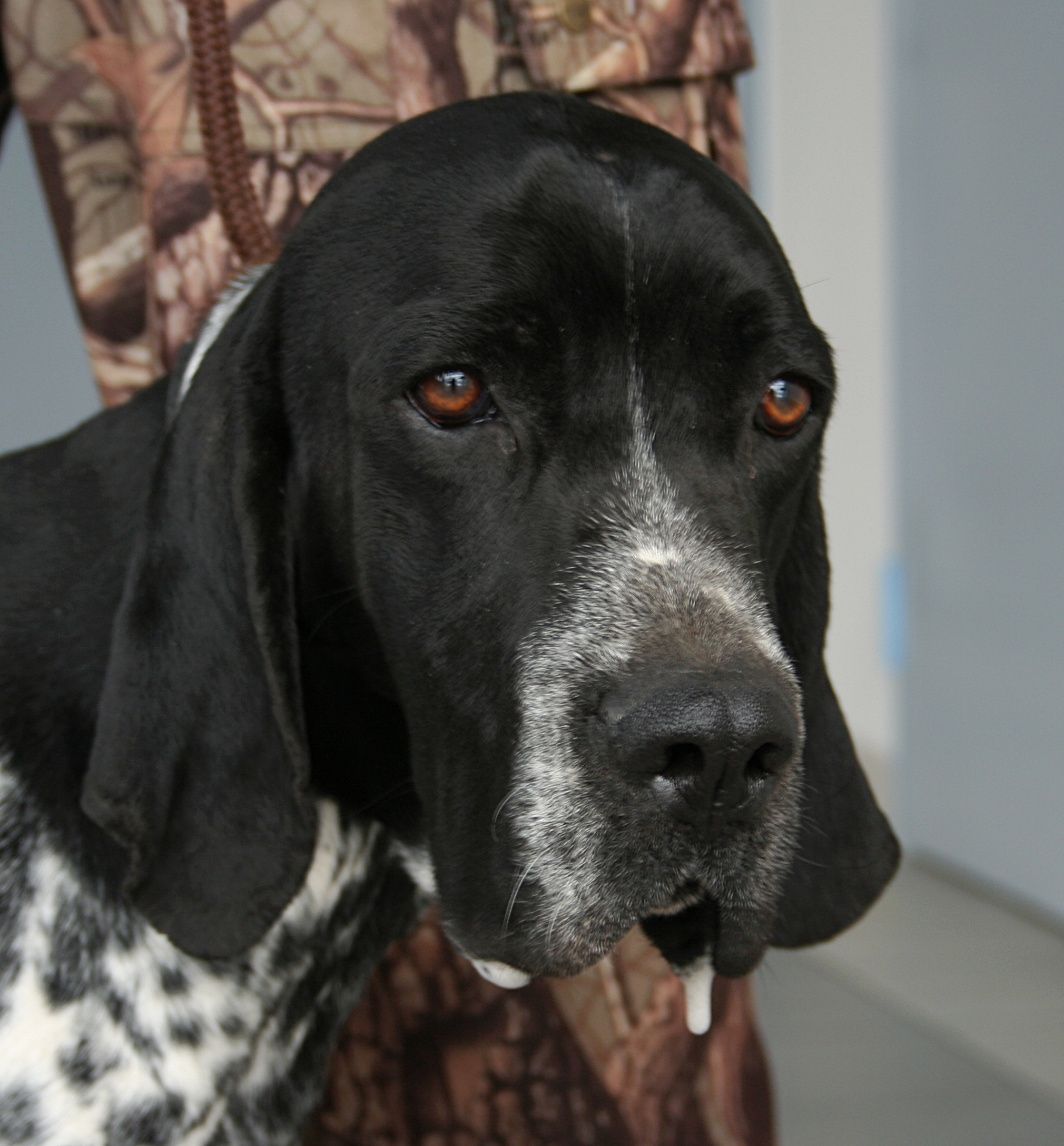 Braque d'Auvergne during International dog show in Rzeszów, Poland. Marian Surma is the breeder and owner from Poland.